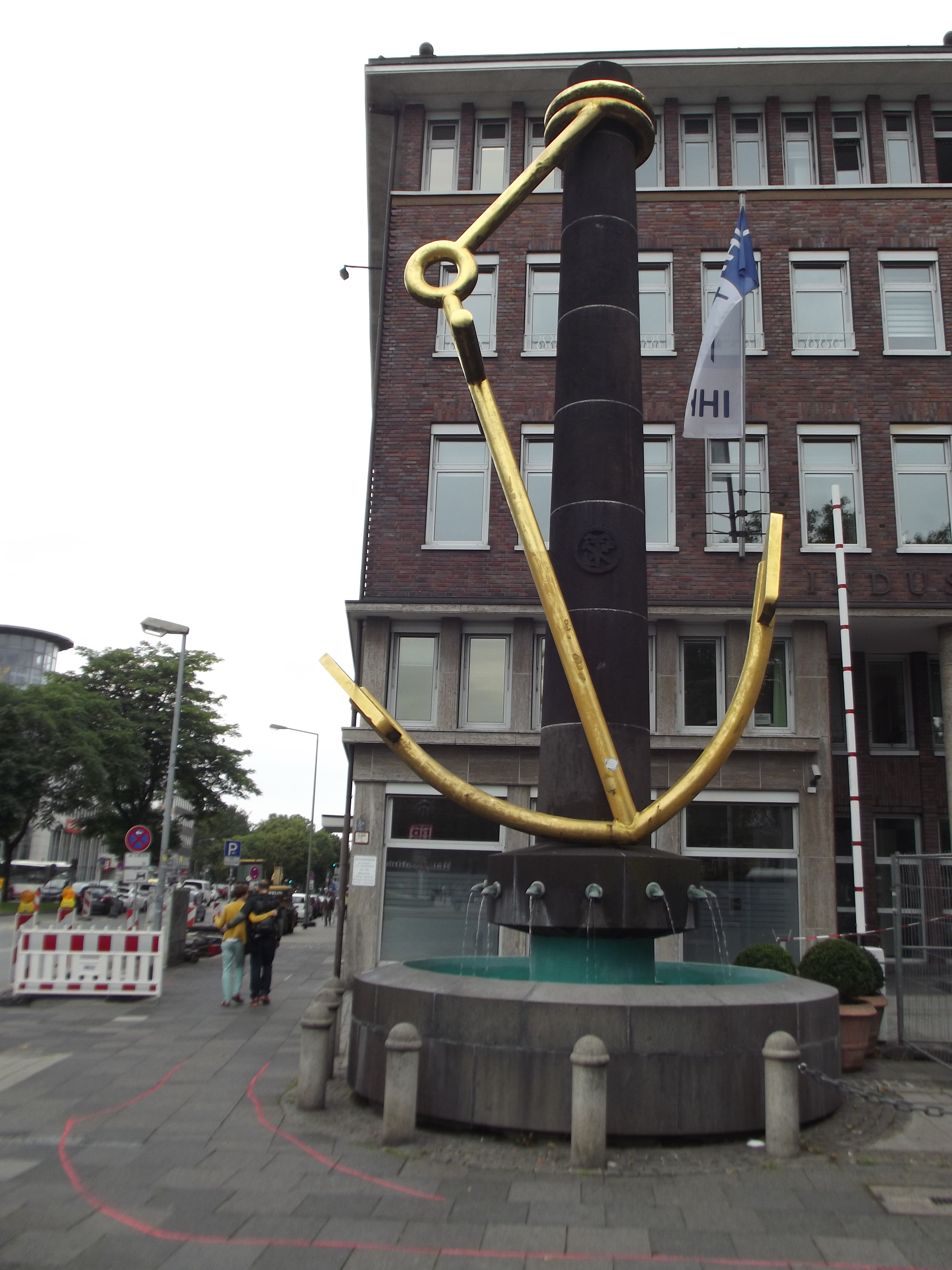 A symbolic anchor in front of the Chamber of Commerce Duisburg points out that the history of this port city has been greatly influenced by its Inner Harbour.